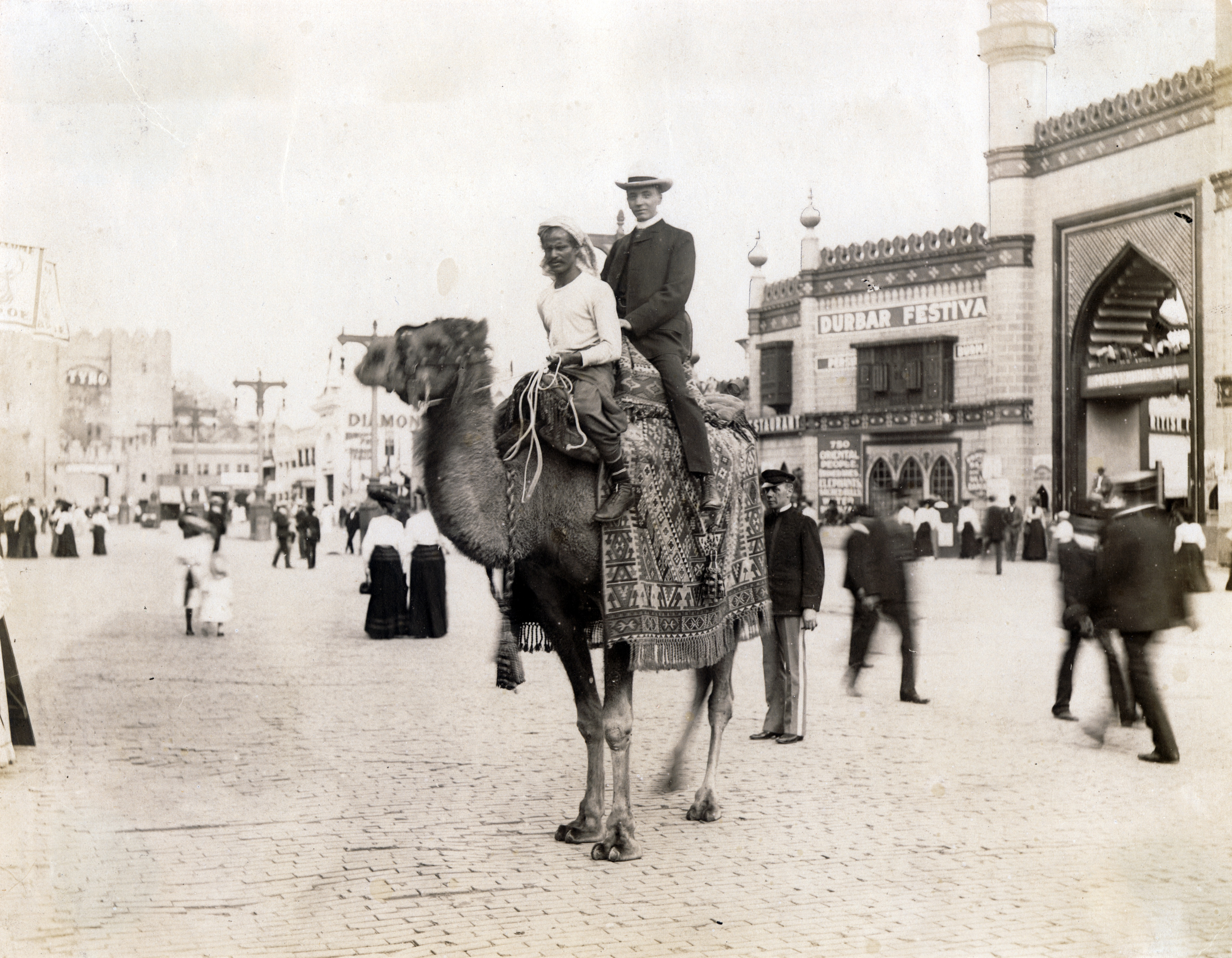 Title: "A camel ride through the Pike." (White man riding a camel with an Egyptian driver in the Pike section of the 1904 World's Fair).